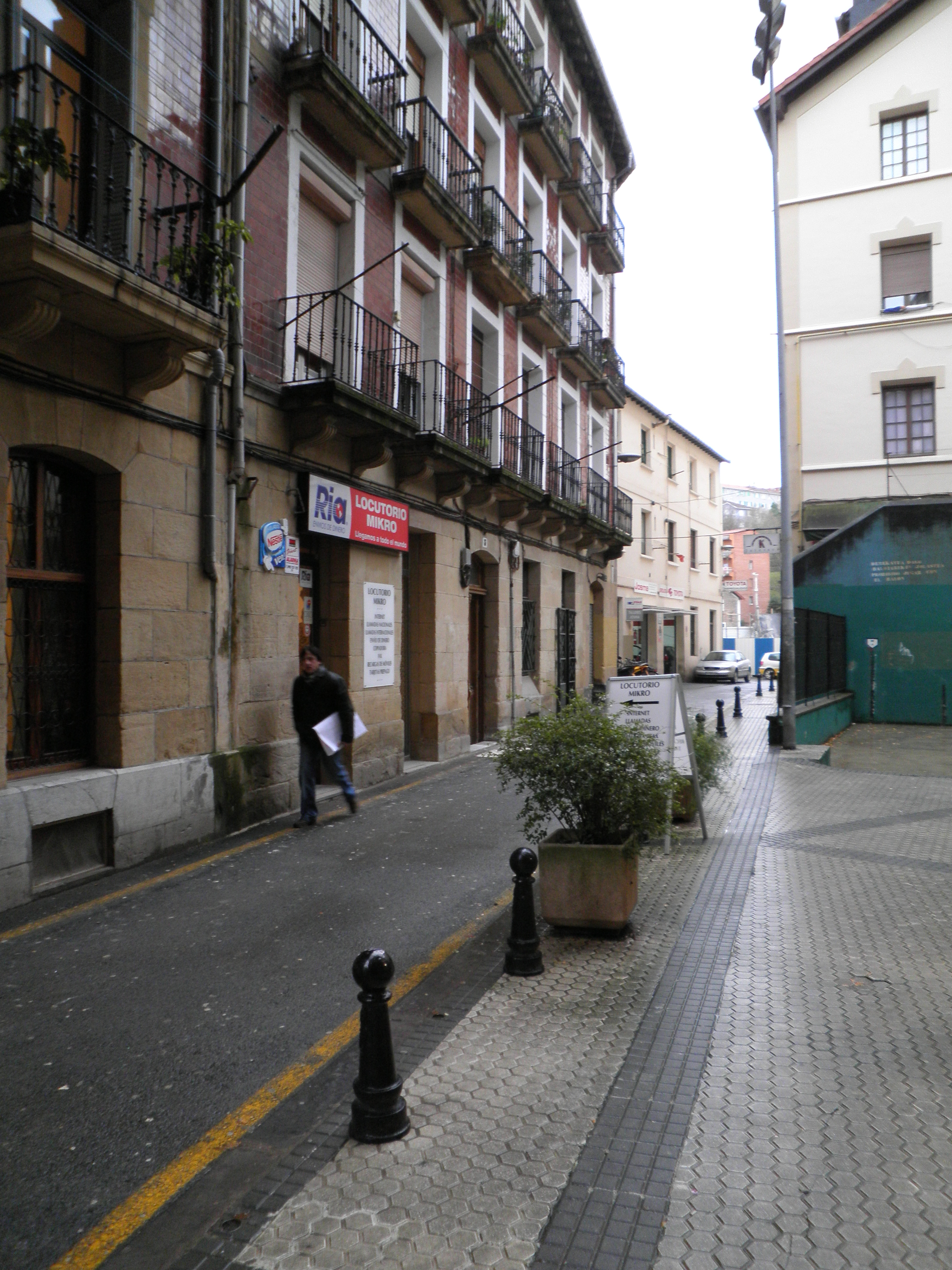 Arroka street, Donostia.